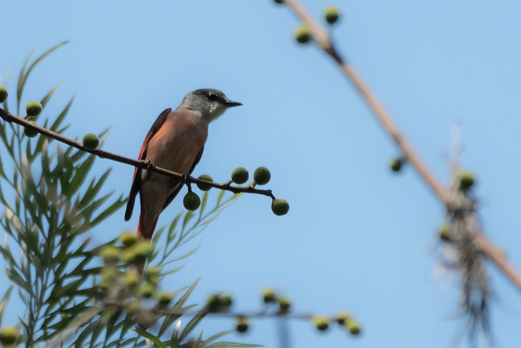 Rosy Minivet Male, from Maredumilli forest, Andhra Pradesh, India. Photographer: Prasanna Kumar Mamidala